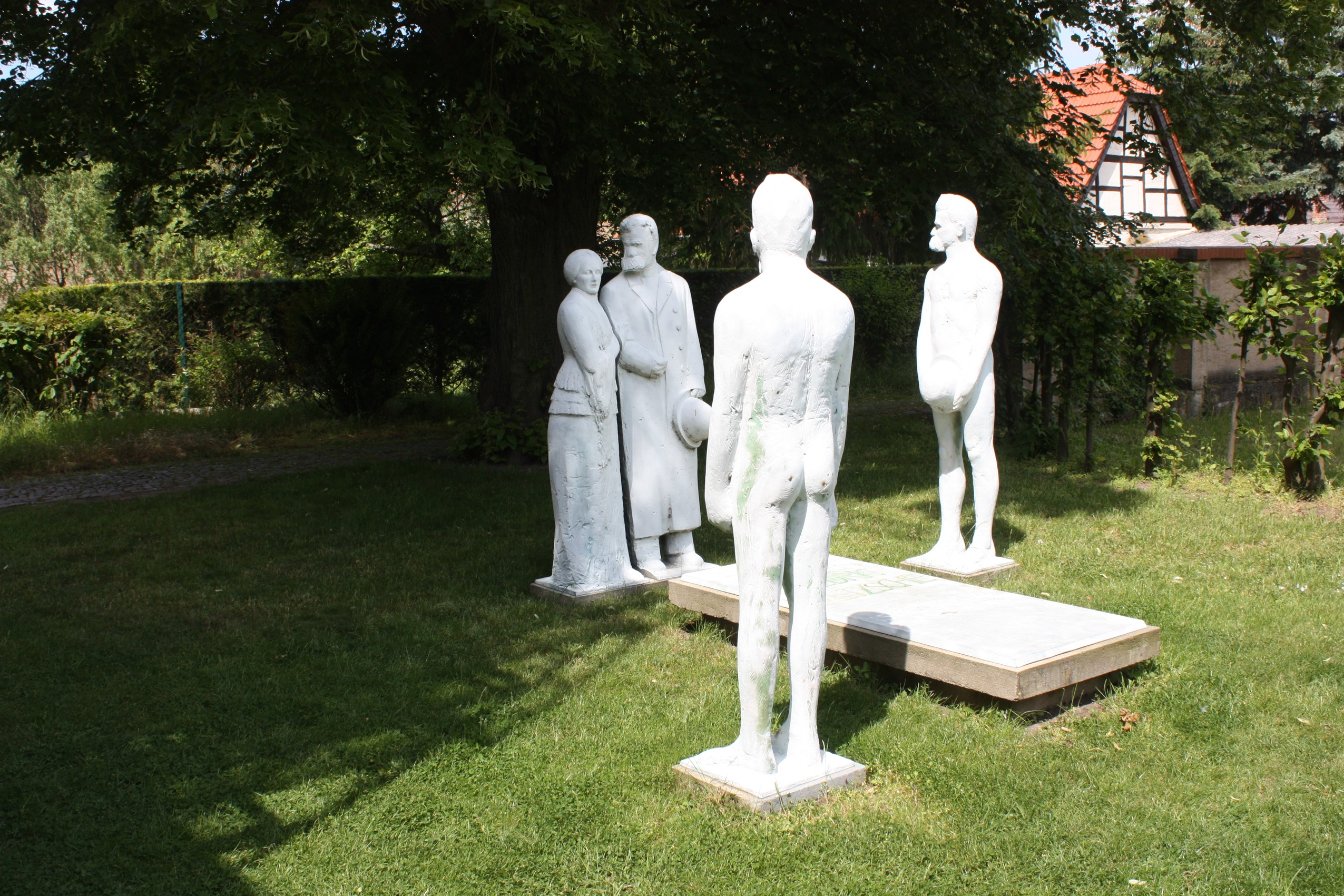 Röcken (Lützen), grave group Friedrich Nietzsche